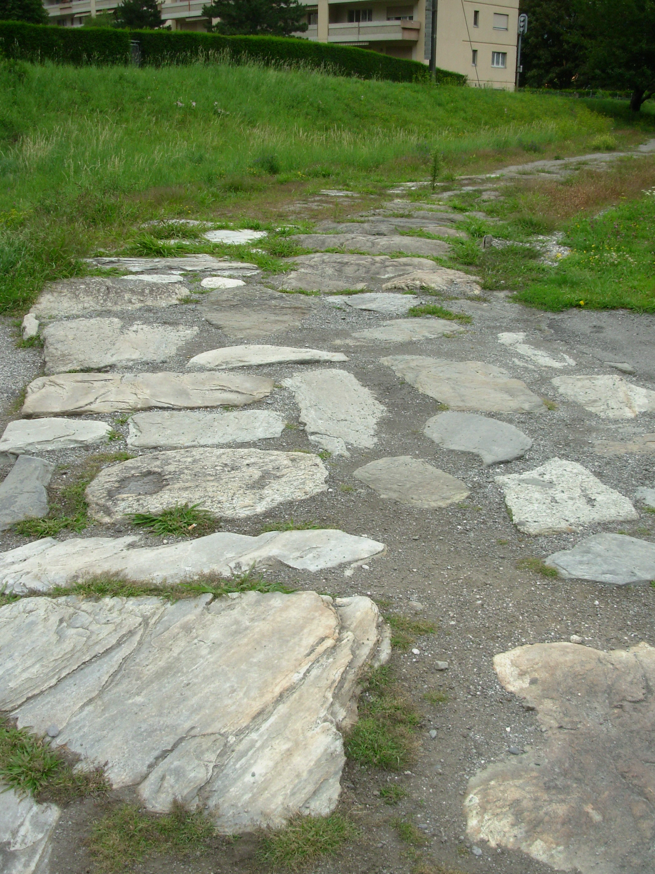 Original Roman street in Martigny (Switzerland)